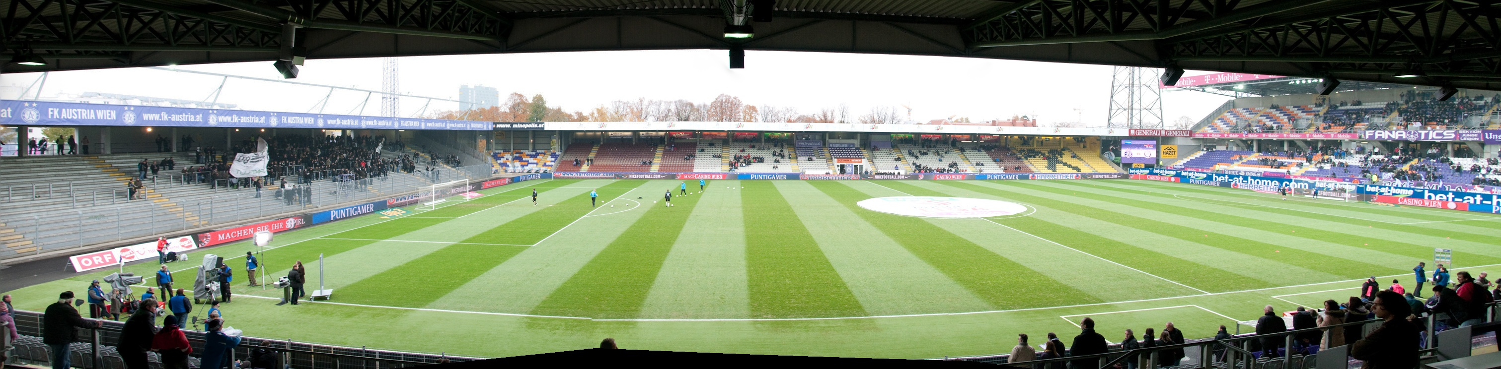 Panorama of Franz-Horr-Stadium, Austria